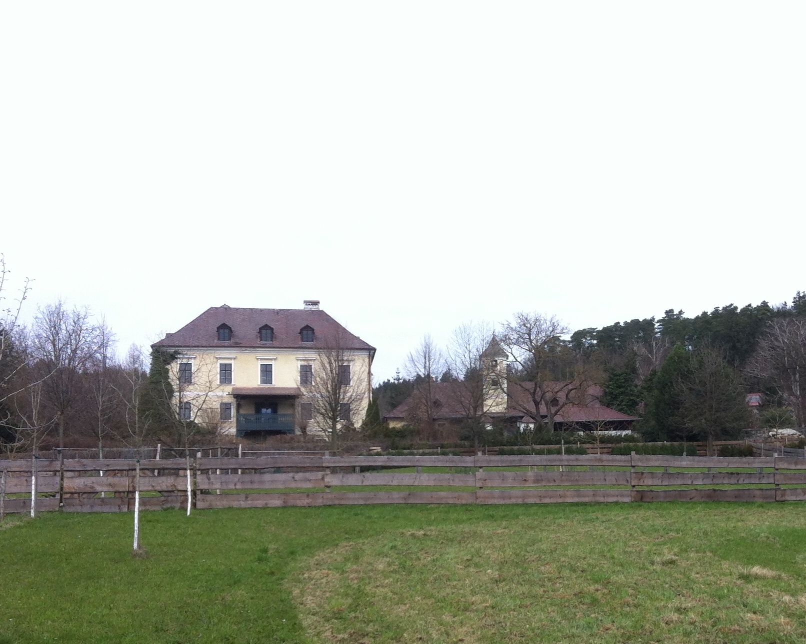 Der Rottenhof in der Gemeinde Hofamt Priel